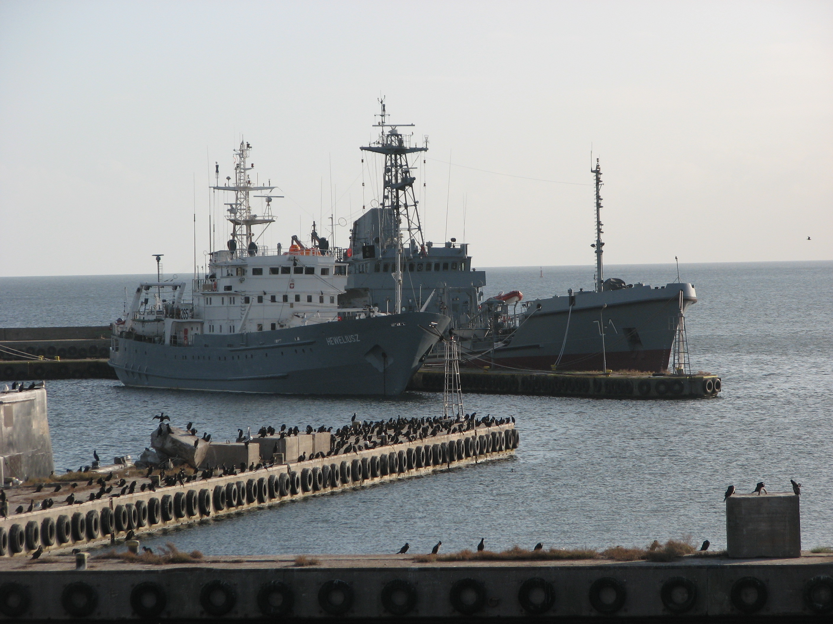 Polish hydrographic research ship Project 864 ORP "Heweliusz" and supply tanker Project ZP-1200 ORP "Bałtyk", Gdynia